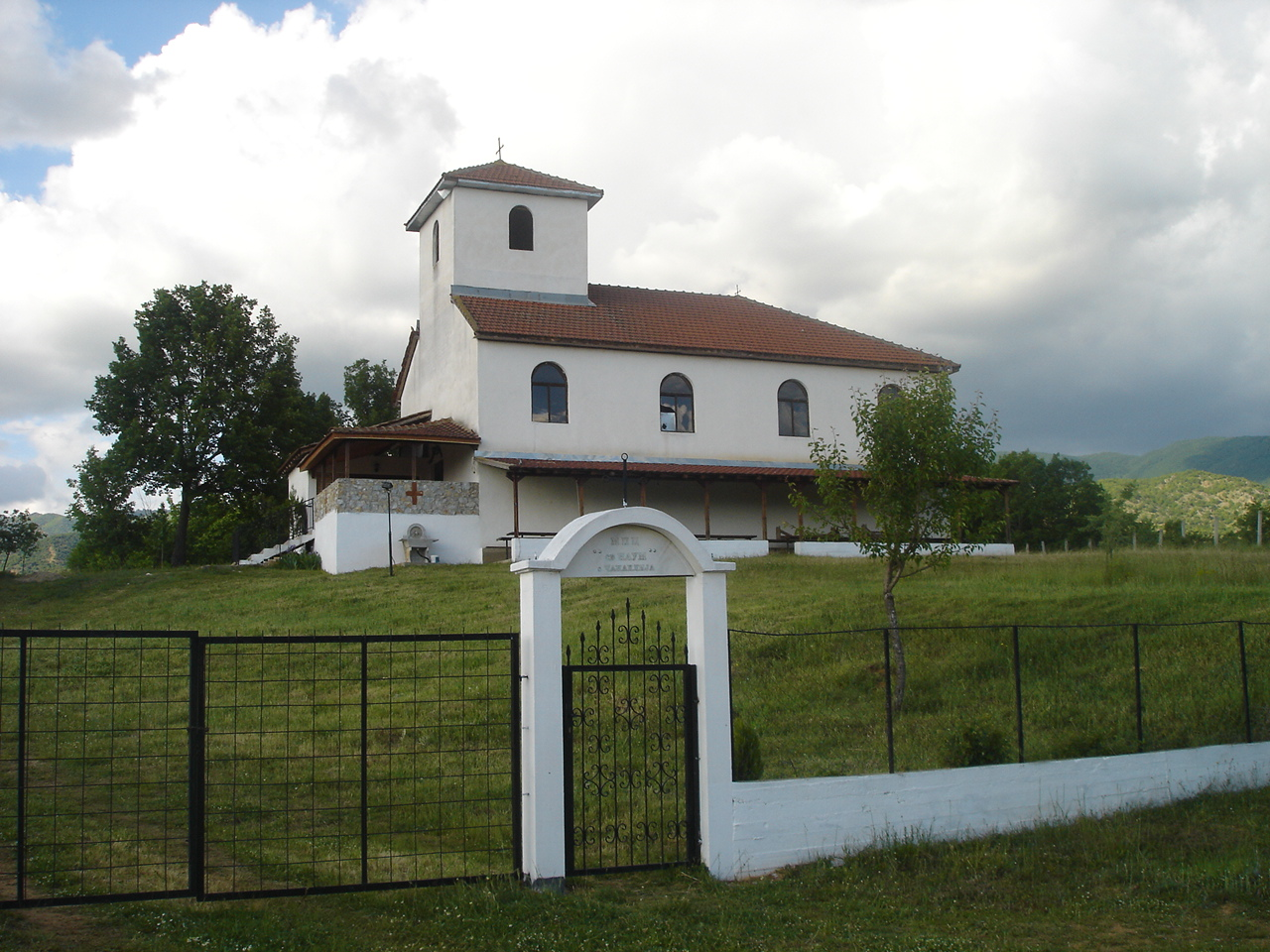 Monastery of St. Naum in Čanaklija, Macedonia